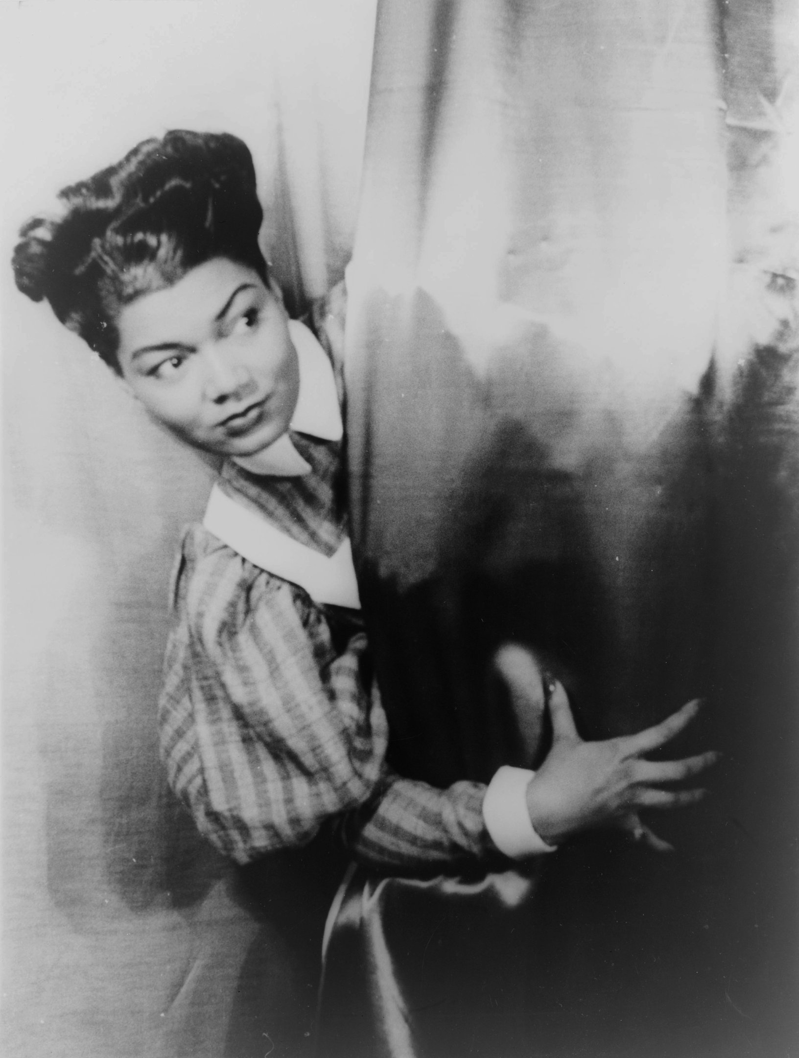 photograph of Pearl Bailey following a performance of "It's A Woman's Prerogative" in the 1946 stage production of "St. Louis Woman"